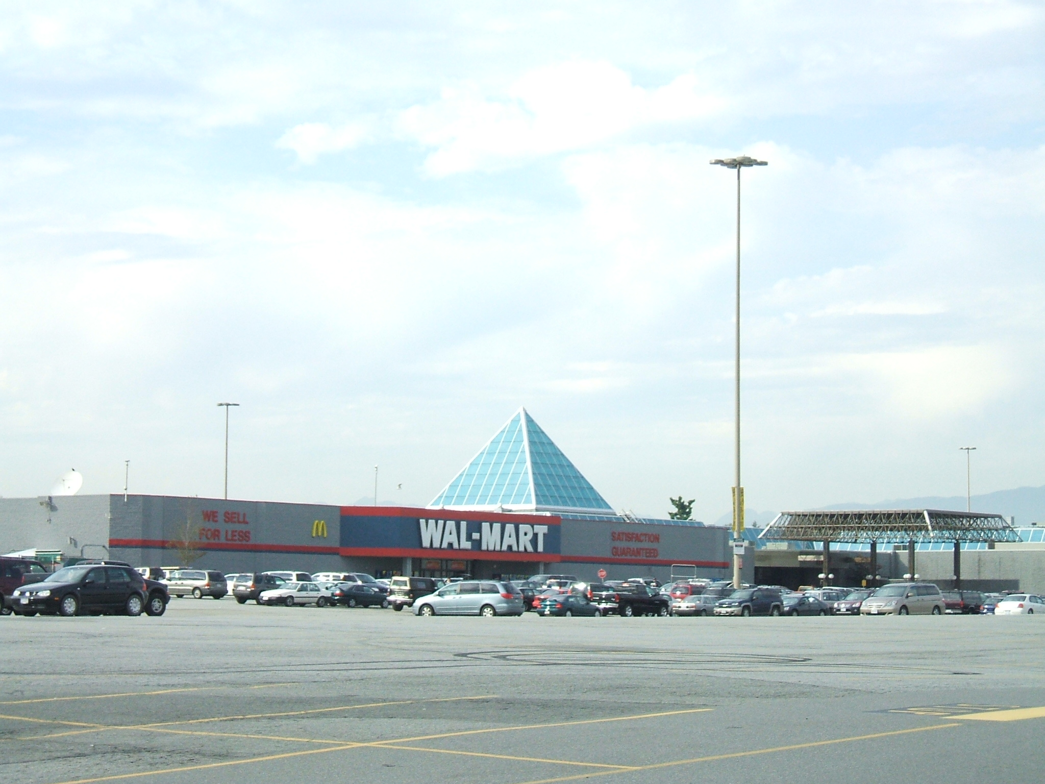 A view of the south side of Guildford shopping centre mall in Surrey, BC, Canada which features Wal-mart as an anchor tenant.